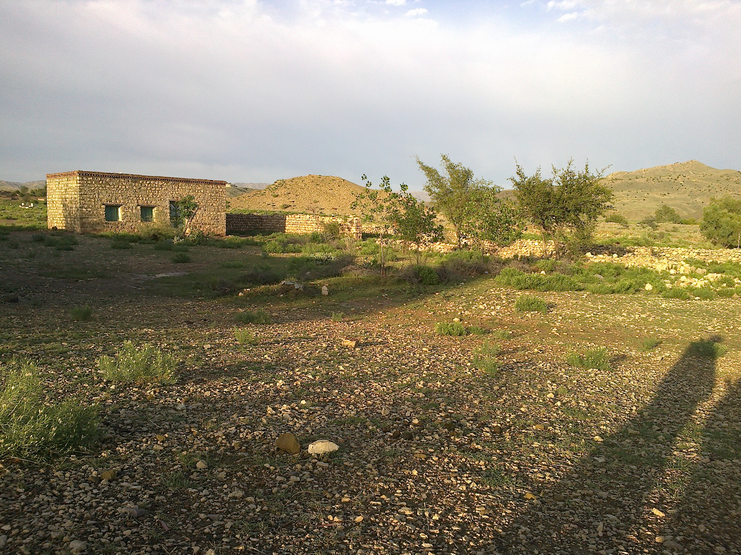 Navidhand village 2013 pic 48